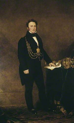 Simpson, John; George Goodman, Mayor (1836); Leeds Civic Collection